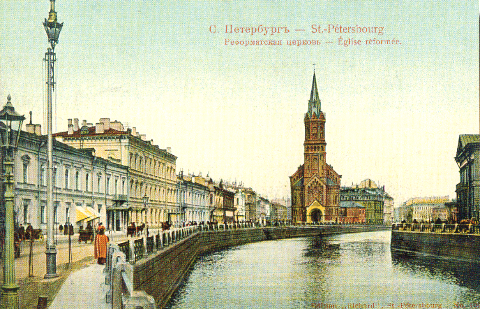 Deutsche Reformed Churche in Saint Petersburg, Russia